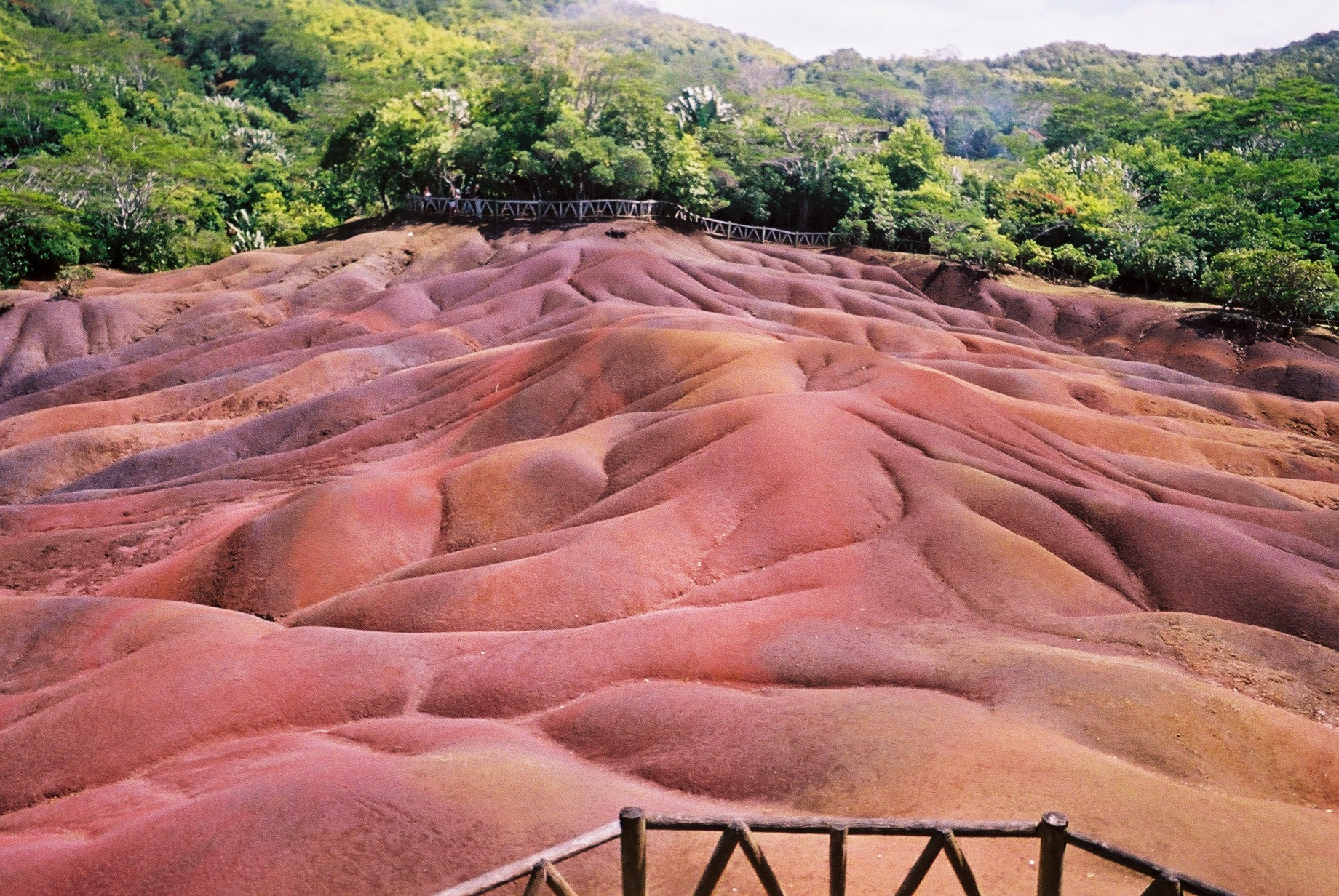 Seven couloured earth in Chamarel, Mauritius caused by volcanic erosion. - Geologists are still intrigued by the rolling dunes of multi-coloured lunar-like landscape. The colours, red, brown, violet, green, blue, purple and yellow never erode in spite of torrential downpours and adverse climatic conditions. The phenomena has never been explained but it is believed the earths are composed of mineral rich volcanic ash.